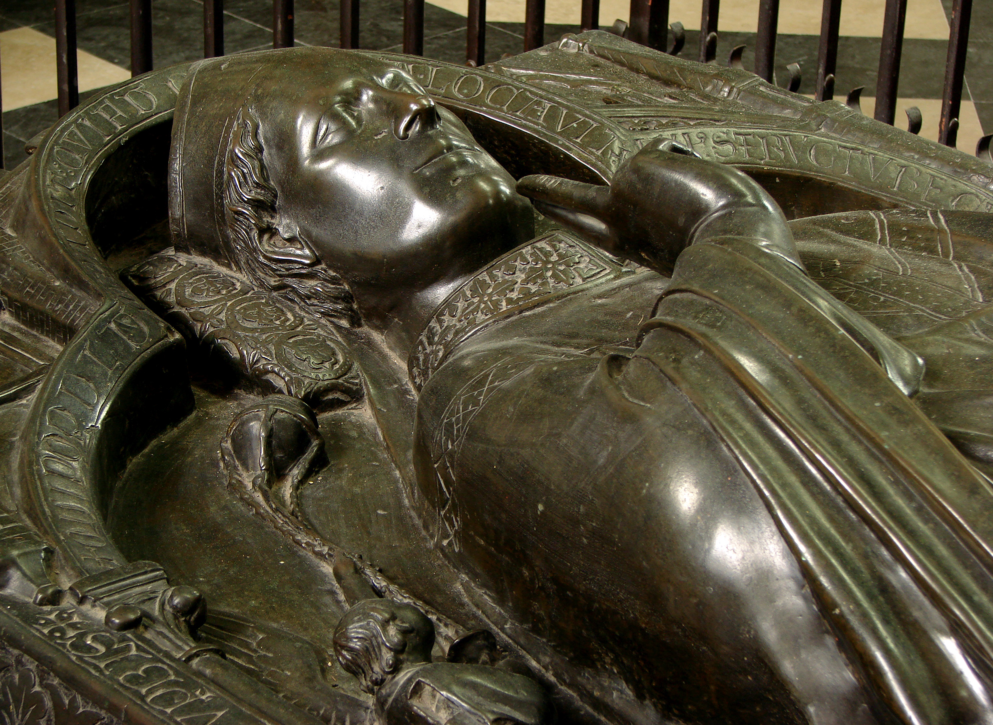 Recumbent figure of Evrard de Fouilloy, bishop of Amiens (1211-1222), bronze, 13th century, in Amiens Cathedral.